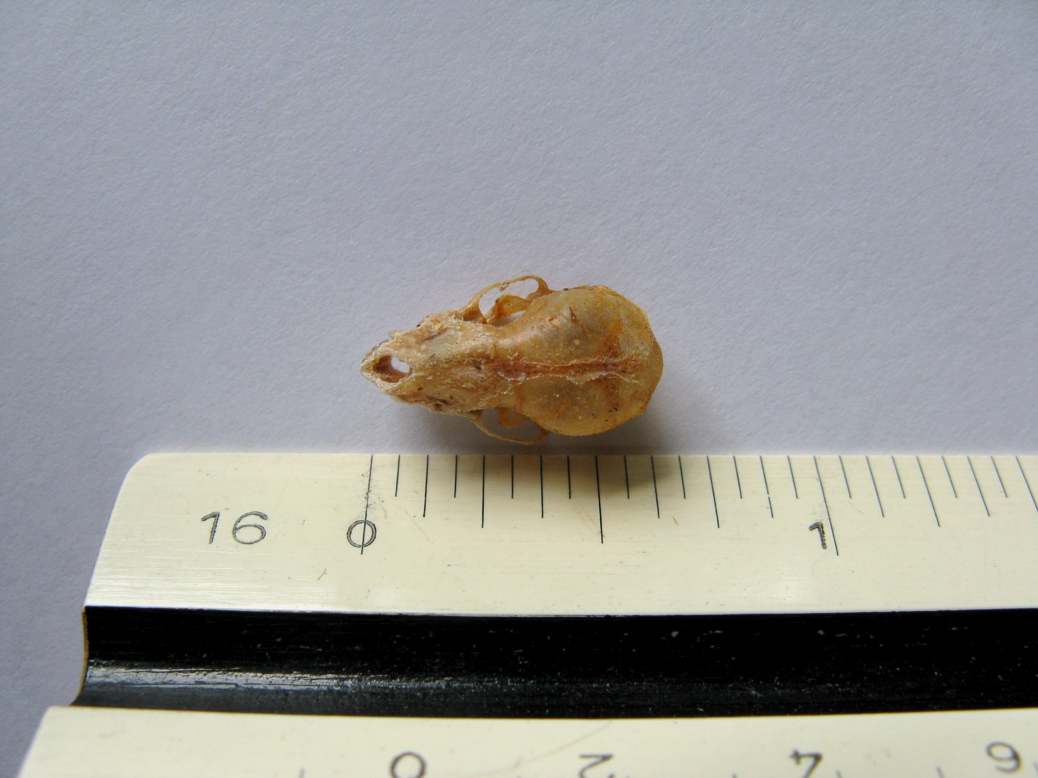 Sorry that it isn't metric, but this scale was the most photogenic. The "1" is at one inch (25.4mm) and each line is 1/16 of an inch (1.59mm).